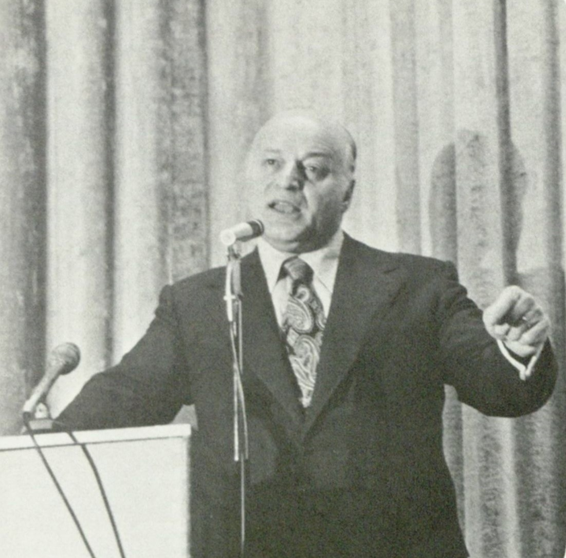 Joseph Alioto speaking at the University of San Diego